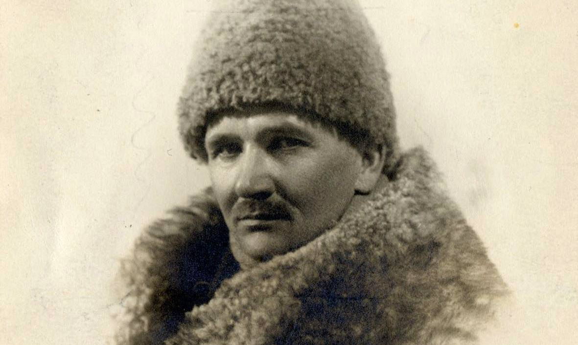 Photograph of the Finnish painter Tyko Sallinen (1879–1955).